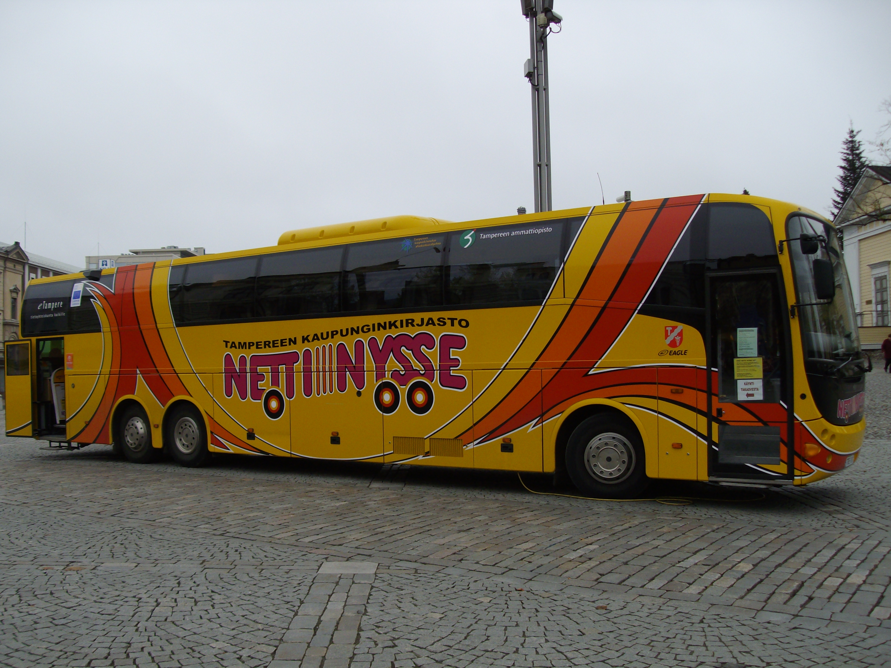 Picture of Netti-Nysse, Tampere City owned bus furnished with computer class and auditorium with hispeed Internet